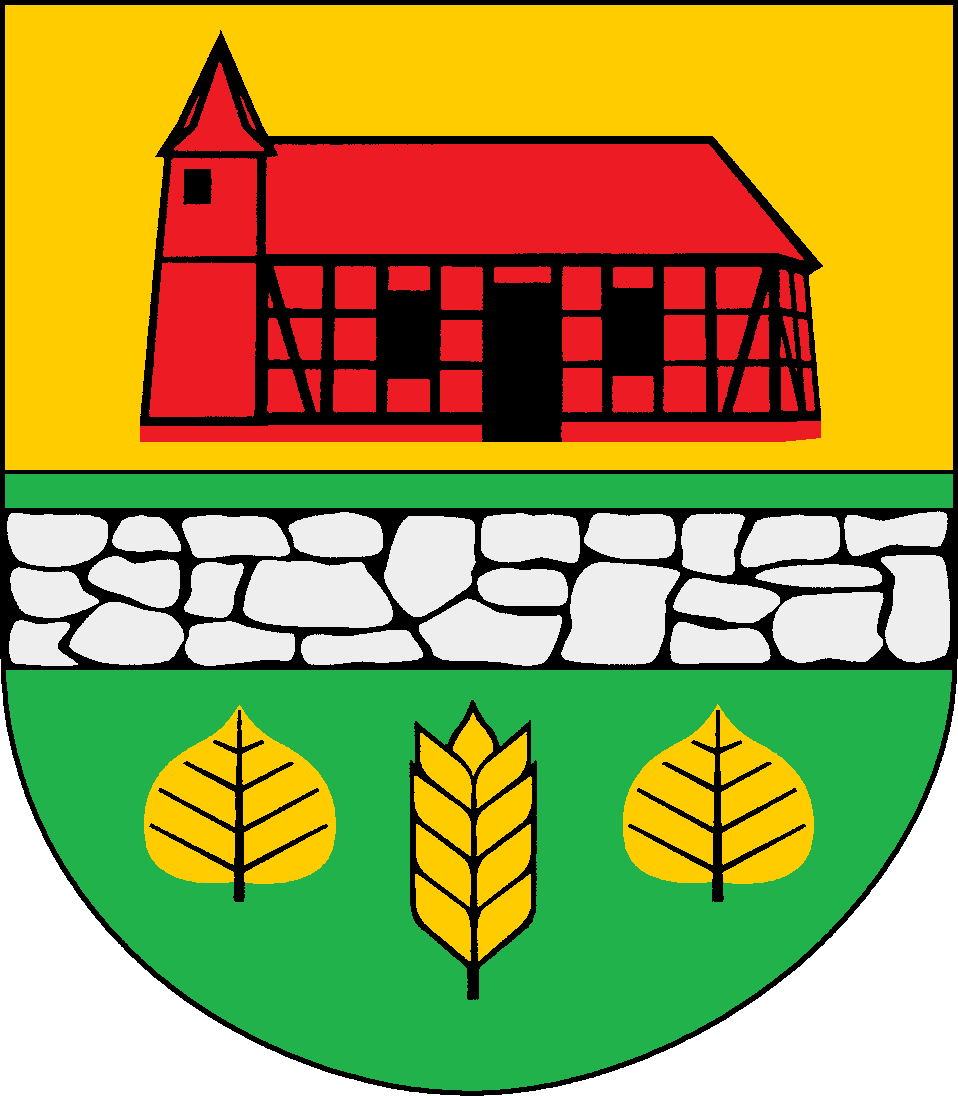 Coat of arms of the municipality Worth in Schleswig-Holstein, Germany.